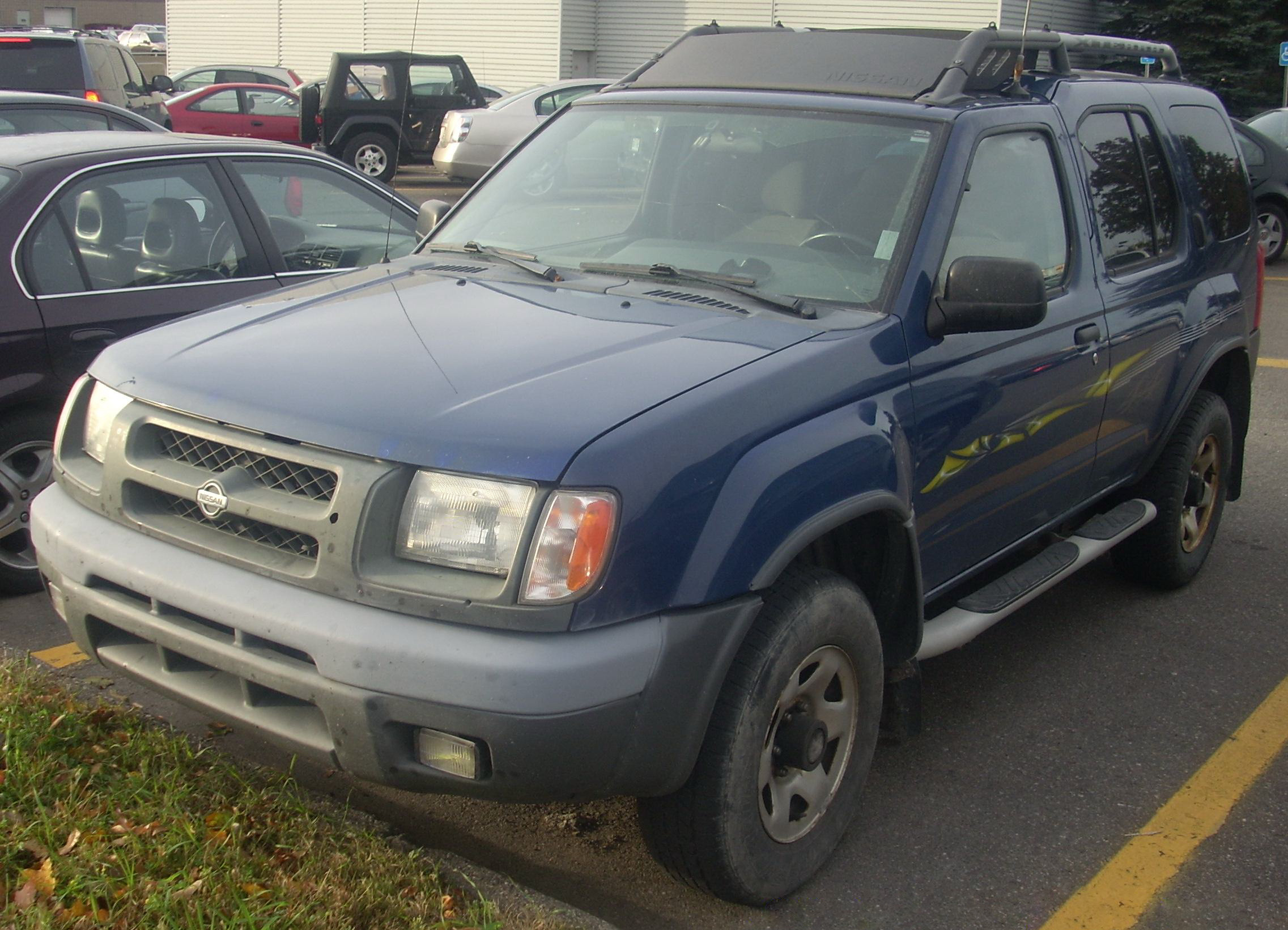 2000-2001 Nissan Xterra photographed in Montreal, Quebec, Canada.